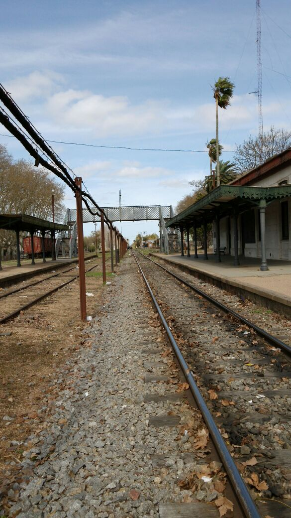 Colón railway station (Montevideo, Uruguay).